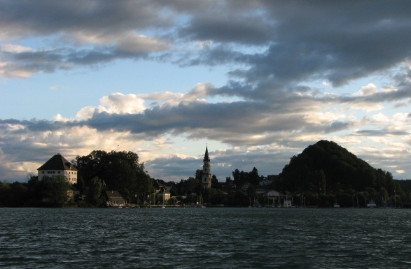 Mattsee, castle and church